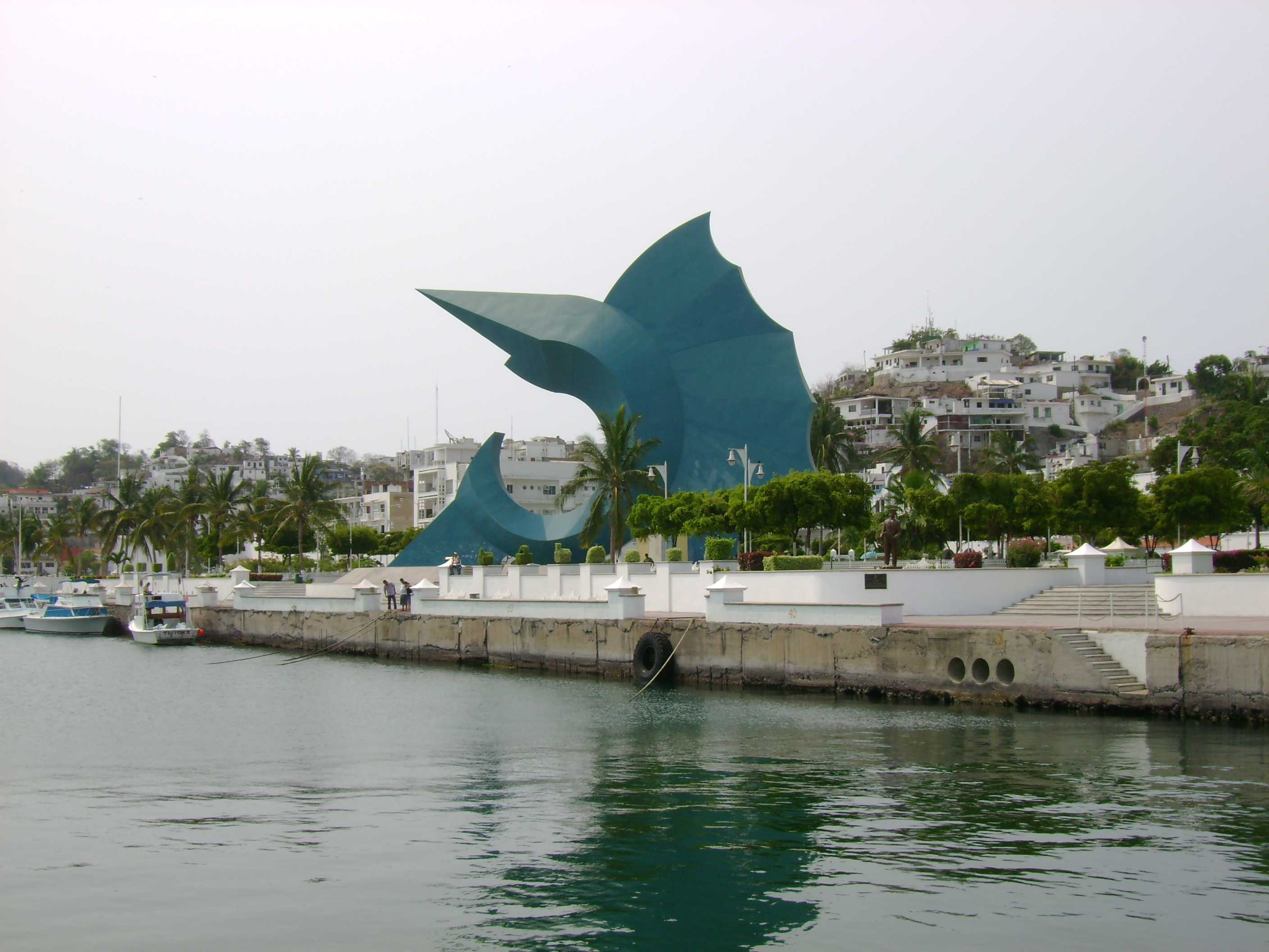 Sculpture "Sailfish" by Enrique Carbajal González (Sebastián) in Manzanillo, Mexico.